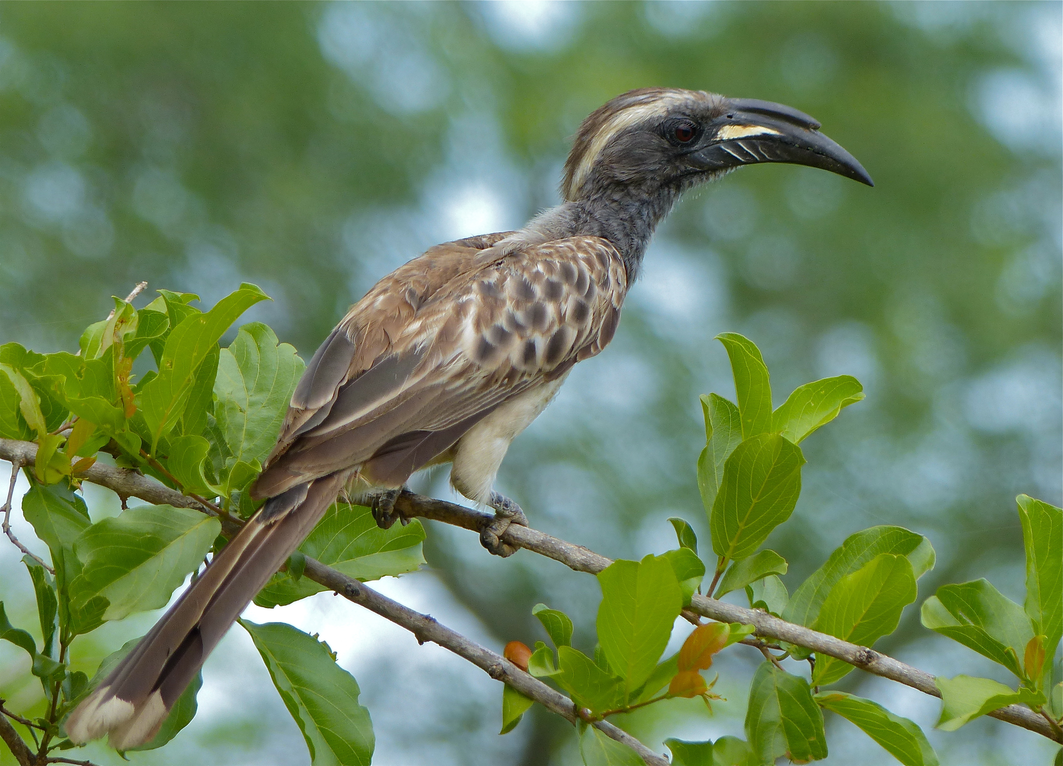 S128 Road, North of Lower Sabie, Kruger NP, SOUTH AFRICA